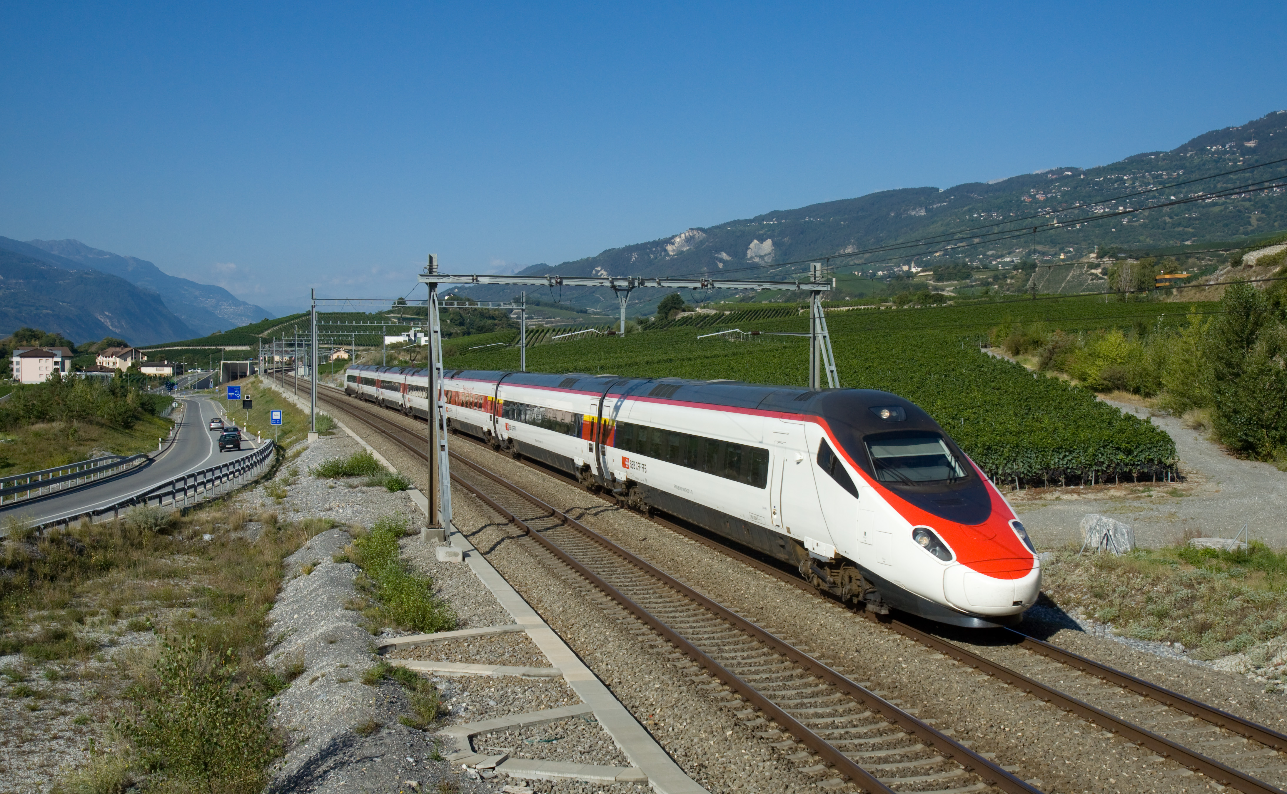 SBB-CFF-FFS ETR 610 tilting train running as EuroCity 37 from Geneva to Venice. The picture was taken near Salgesch, Switzerland.